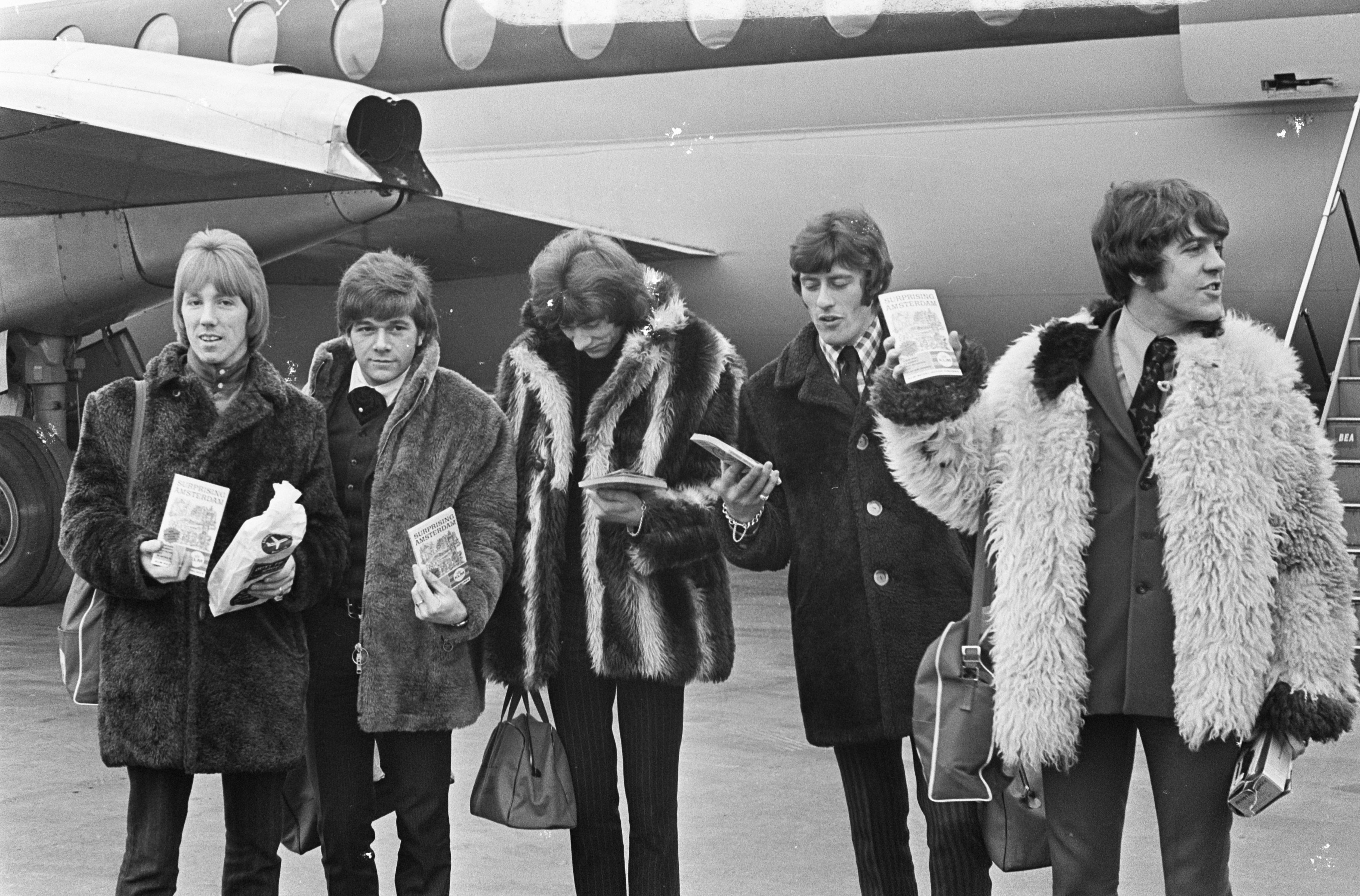 Dave Dee and his group arriving at Schiphol Airport, 27 January 1967. Dave far right, with sheep skin jacket.